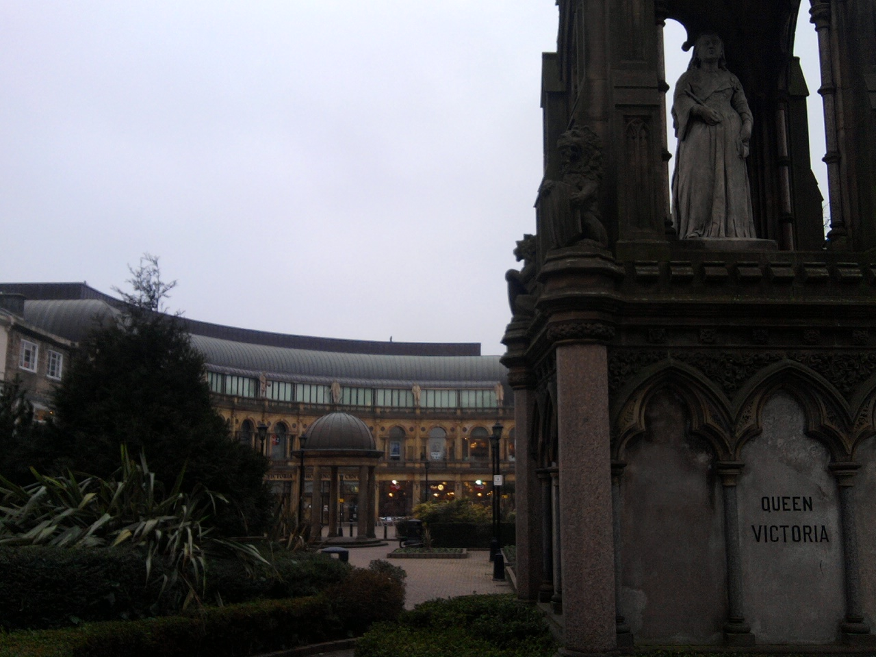 Monument to Queen Victoria in Harrogate